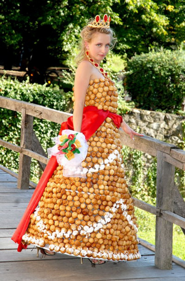 Sweet dress by Shtefanyo Valentin